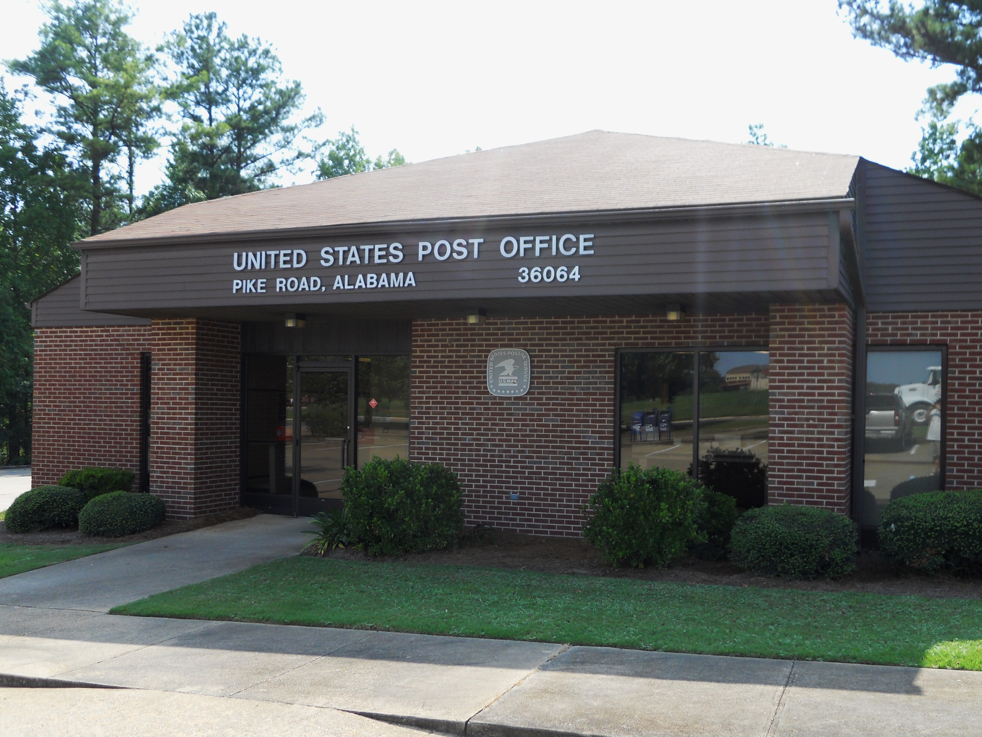 This is a photograph of the post office in Pike Road, Alabama.